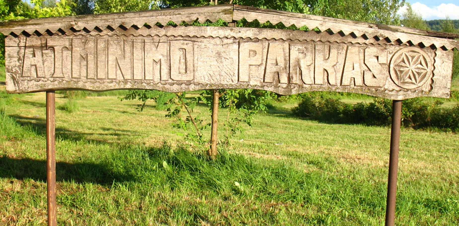 Atminimo parkas, Jonava